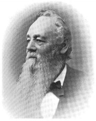 William J. Bacon, Congressman from New York